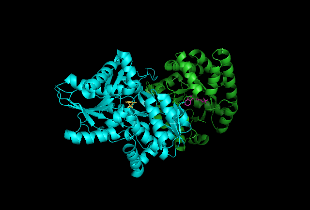 Tryptophan Synthase Dimer